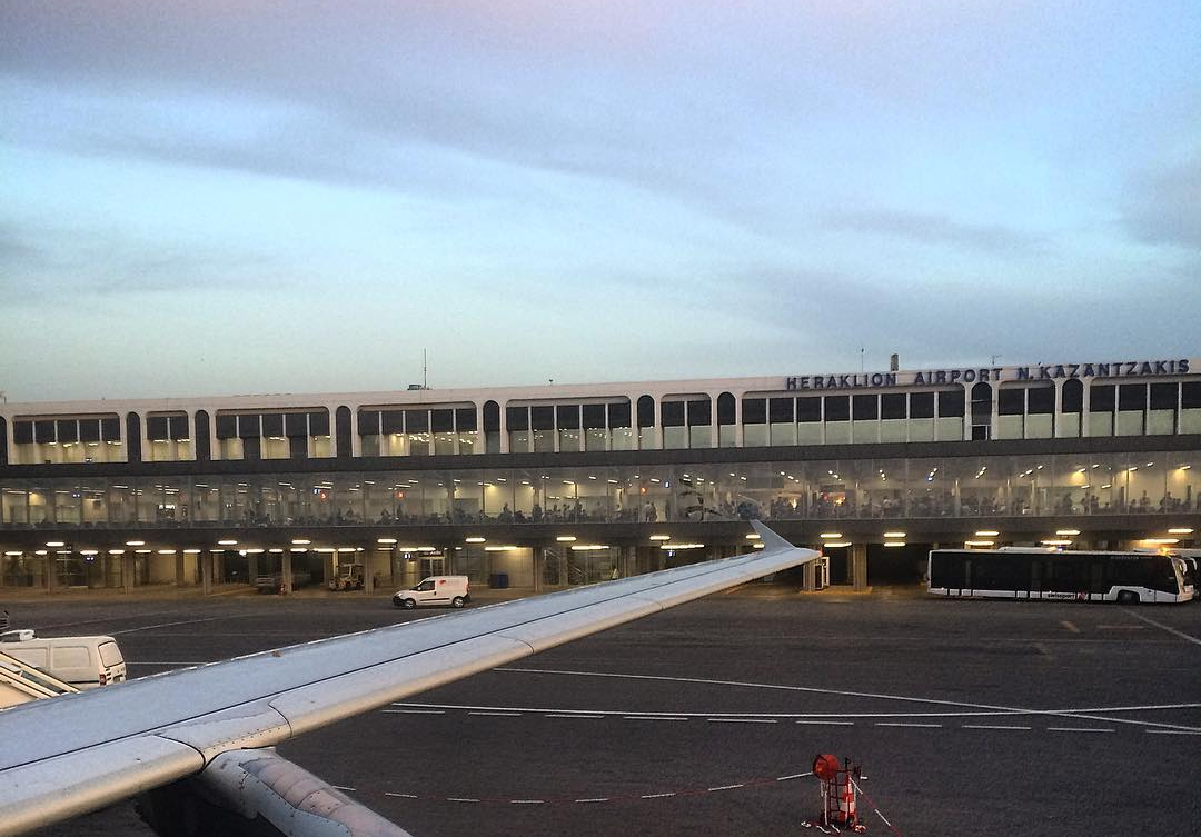 Heraklion International airport